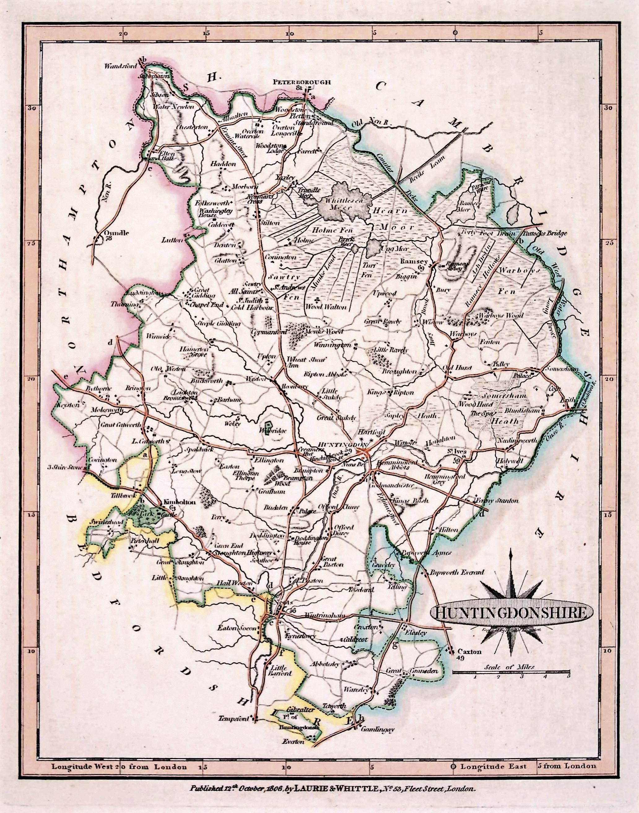 map of Huntingtonshire, a traditional county of England and current district of Cambridgeshire